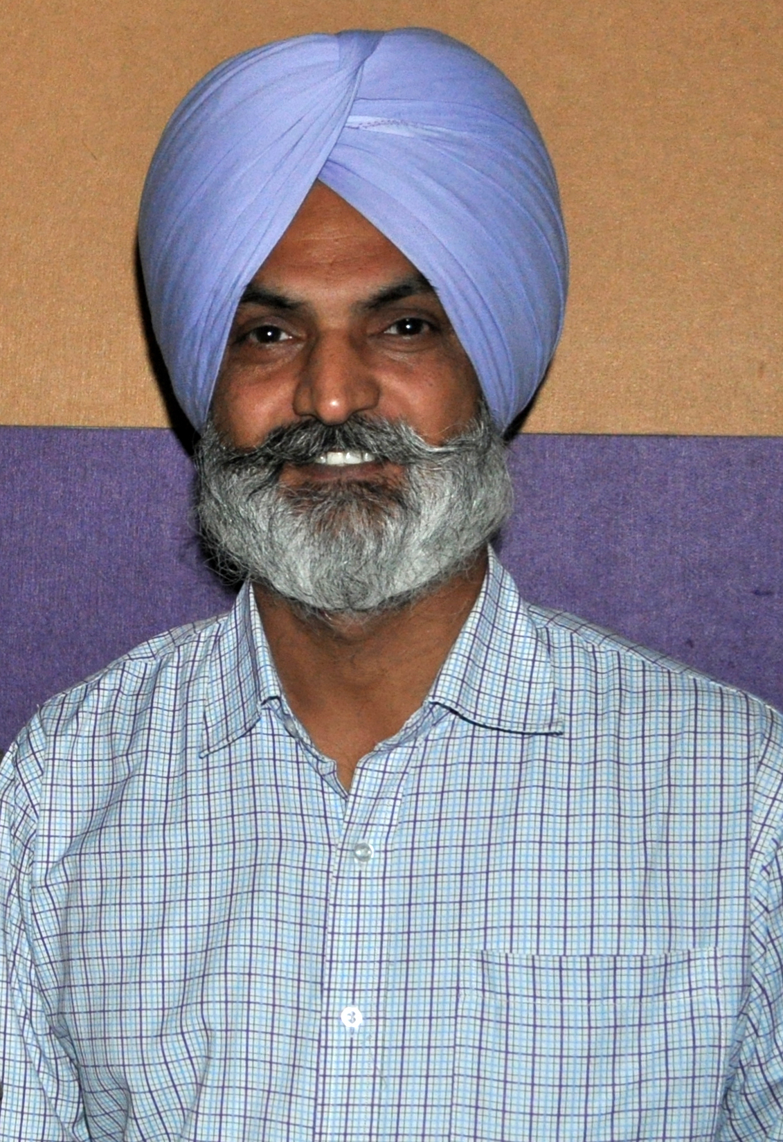 ਜਸਵੰਤ ਜ਼ਫਰ